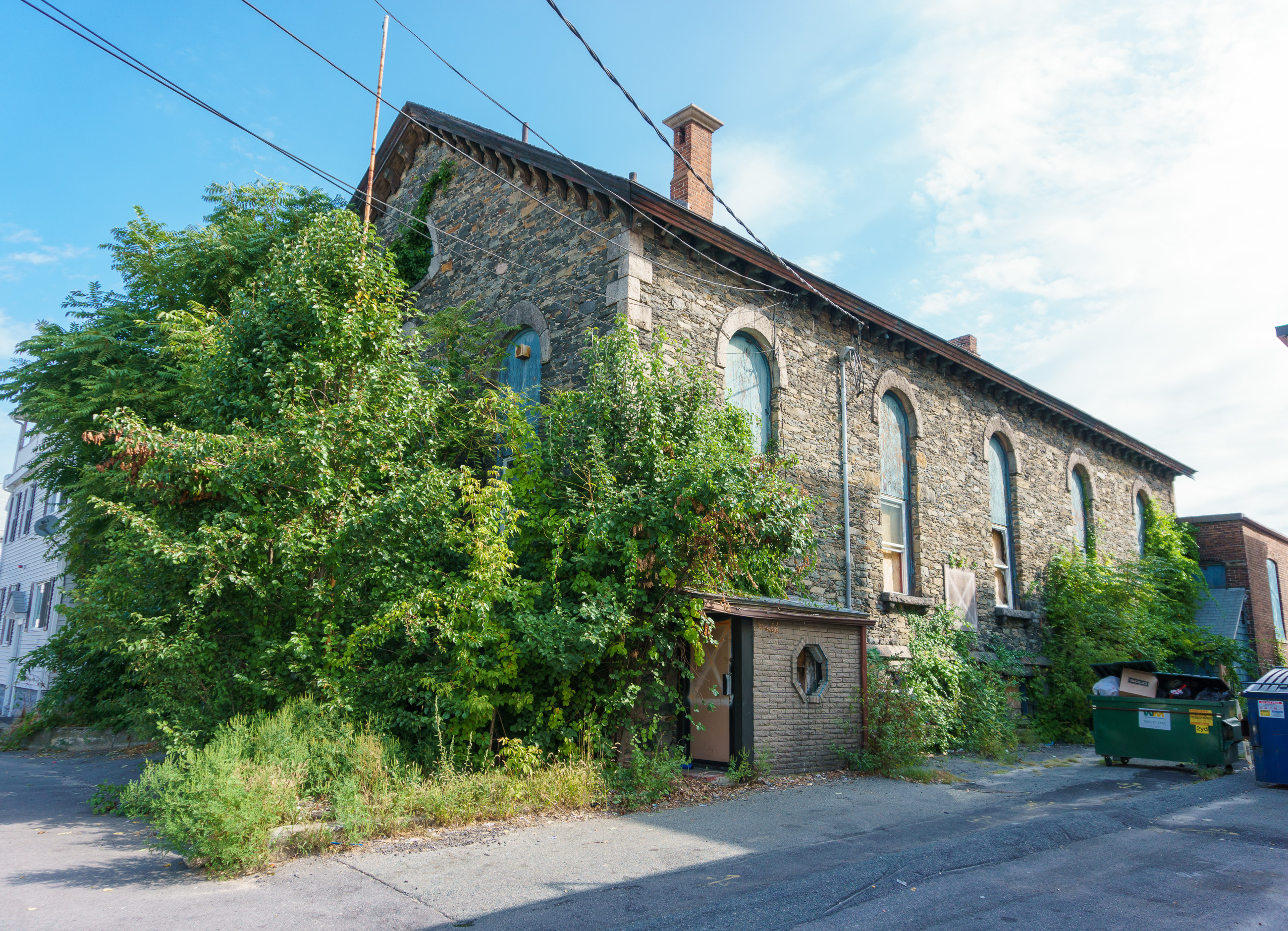 Union Mission Chapel-Historical Hall is an historic building at 5 Cedar Street in Taunton, Massachusetts. Looking neglected in September 2015.